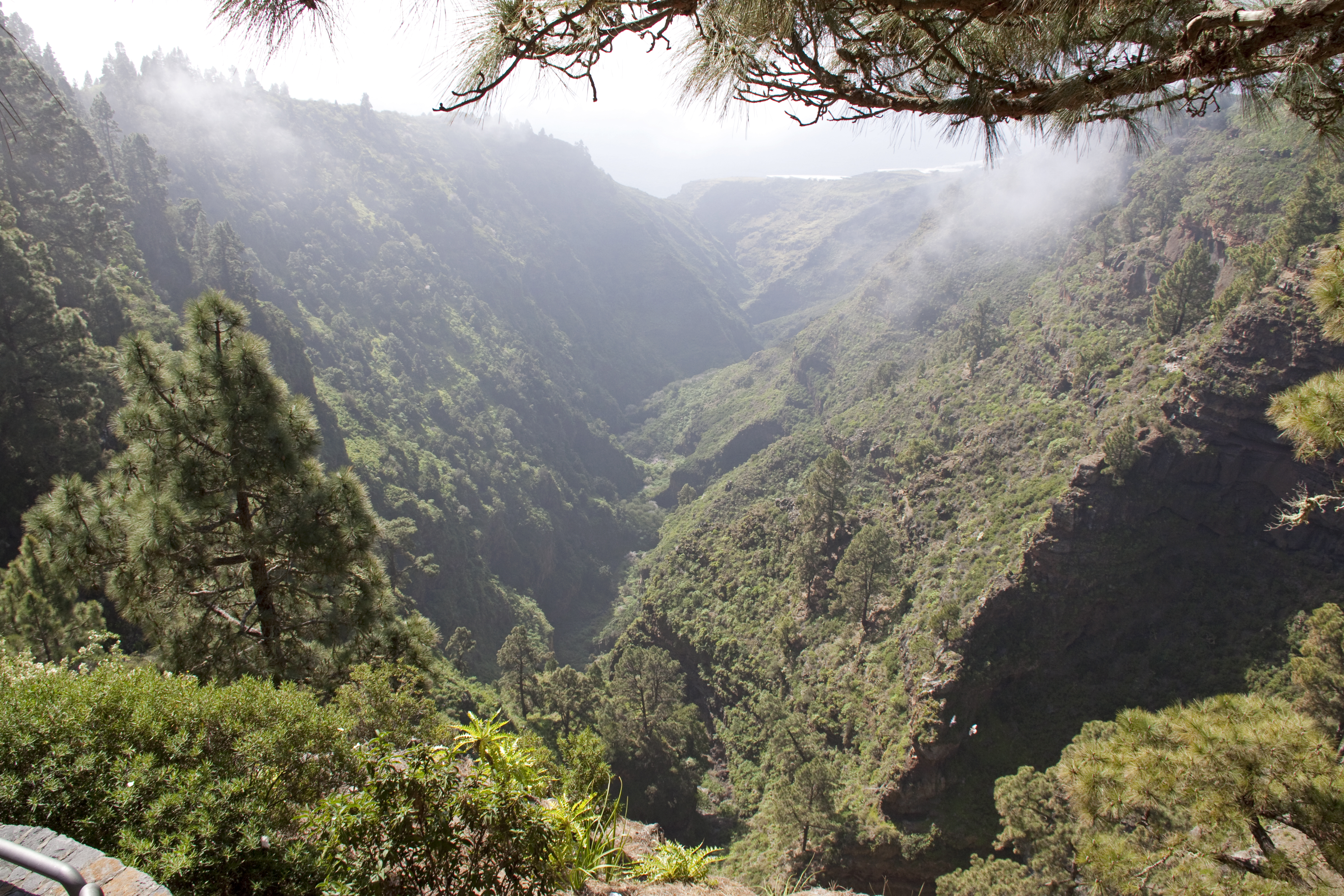 Another Gorge